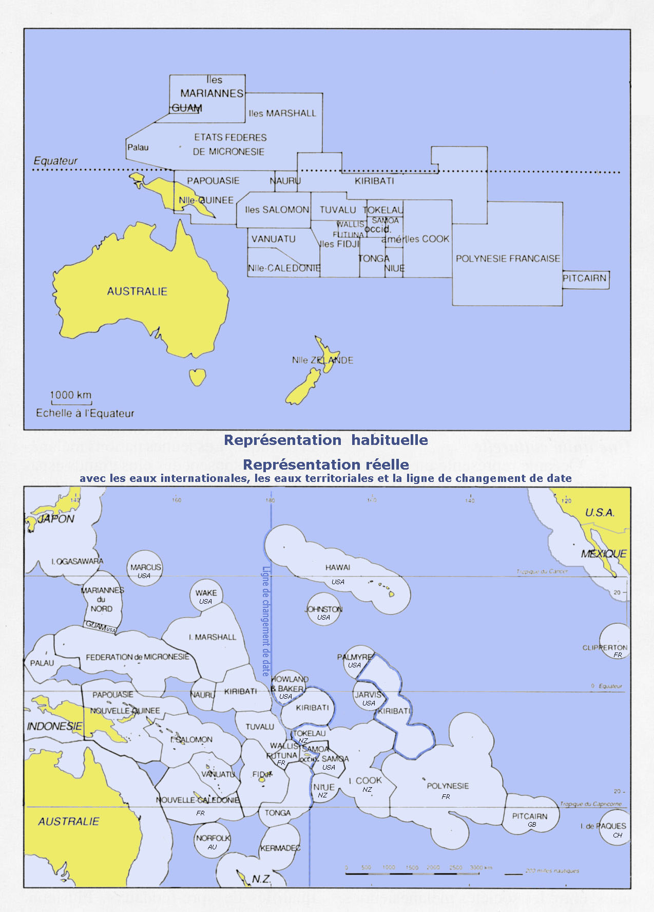 Pacific ocean maps : traditionnal, and real view, with territorial sea areas